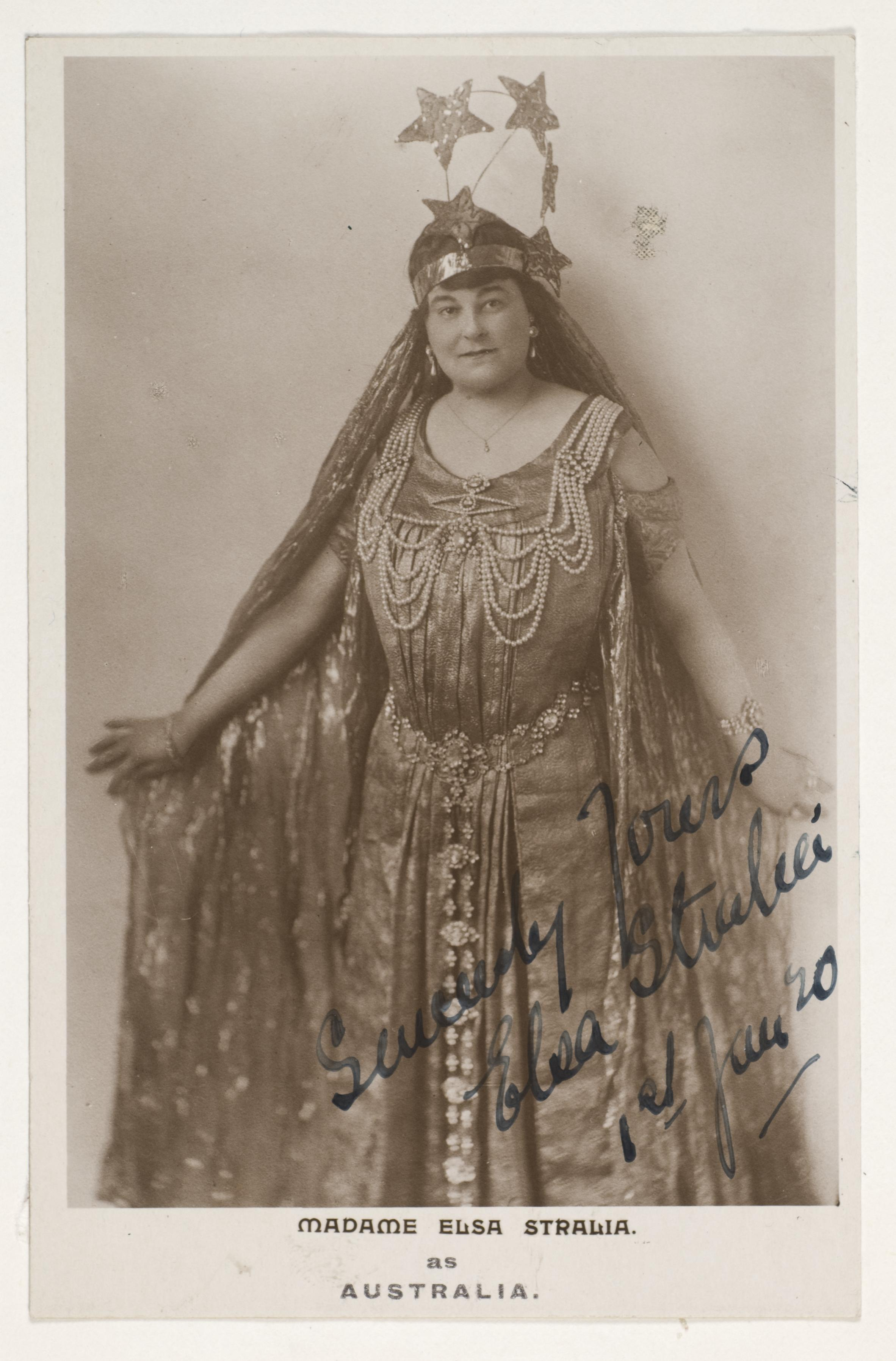 Elsa Stralia, born Elsie Mary Fischer, studied singing with Elise Wiedermann and Lily Slapoffski at the Marshall-Hall Conservatorium, Melbourne, before leaving for Europe in 1910. She was a dramatic soprano with a huge but agile voice who sang Rossini runs like a coloratura. Like Melba and Austral, she changed her name to sound more like an "opera singer". She studied with Mathilde Marchesi and sang in Beecham's Covent Garden opera season in 1913 and later at La Scala. On her Sydney debut in 1925, she received a floral representation of the ladder of fame from Amelita Galli-Curci, who was touring Australia. Format: Postcard Find more detailed information about this photograph: .au/item/itemDetailPaged.aspx?itemID=442371 Search for more great images in the State Library's collections: .au/search/SimpleSearch.aspx From the collection of the State Library of New South Wales